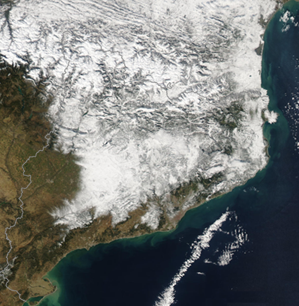 Satellite picture of Catalonia in winter. NASA